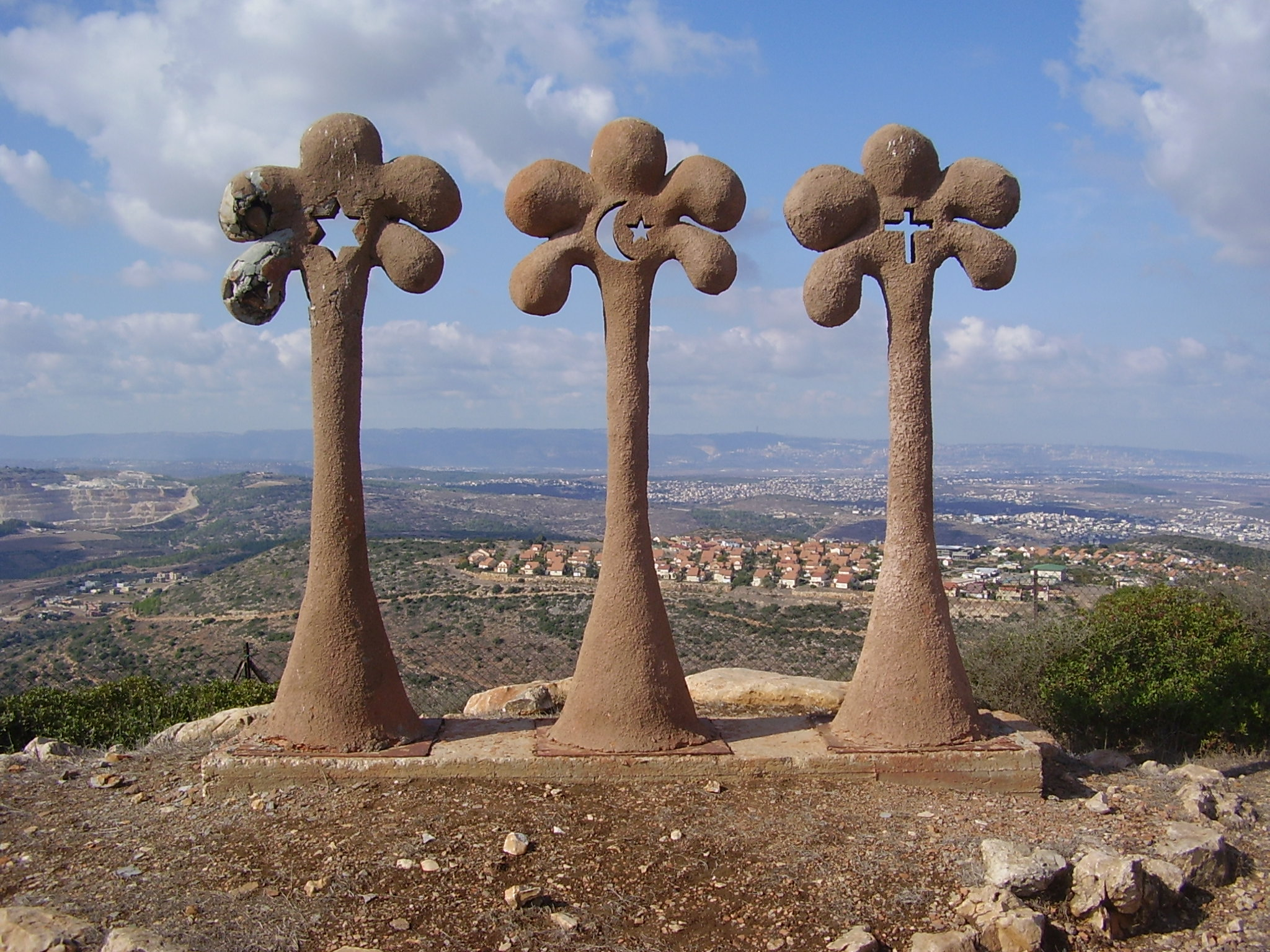 three religions brotherhood sculpture in kaukab abu al-hija